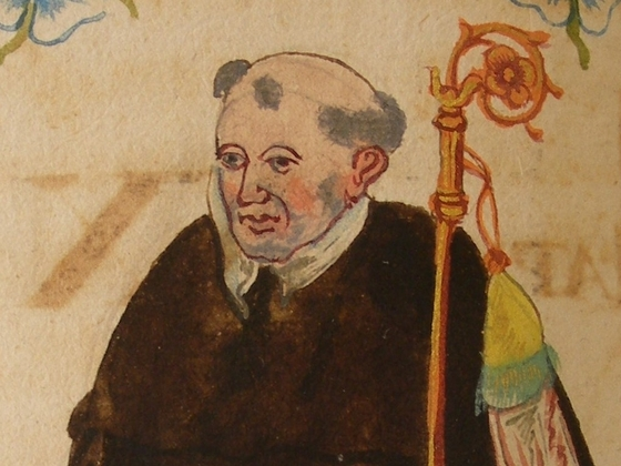 St. Gall Abbot Wilhelm von Montfort-Feldkirch 1281-1301. From Chronicon brevissimum monasterii Sancti Galli (1696).